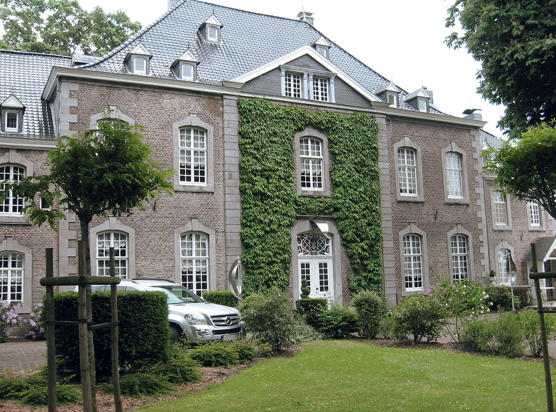 Chateau Thal, Belgium. Residence of Artist Rainer Maria Latzke